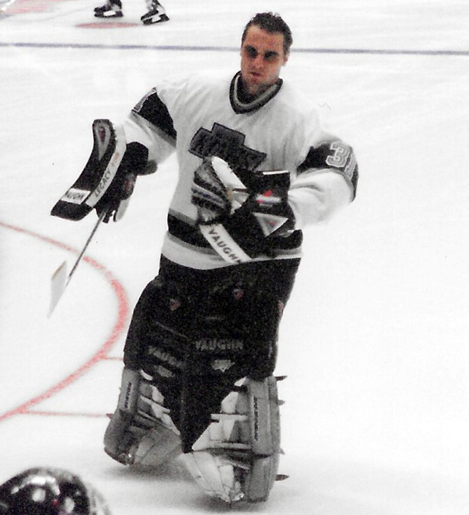 Dafoe at a Los Angeles Kings game at the Great Western Forum.